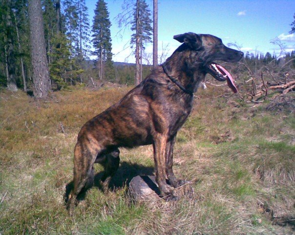 This is a male short haired Dutch Shepherd dog from Norway.